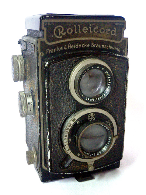 Rolleicord I type2